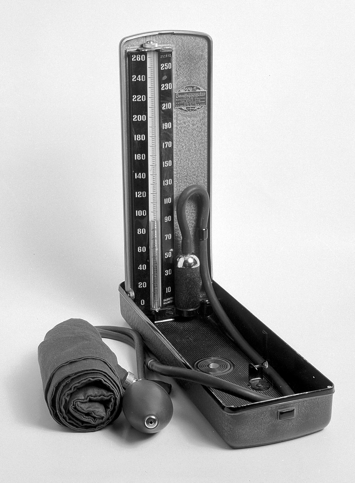 "Baumanometer": instrument for measuring blood pressure, by W.A. Baum co. inc., New York Wellcome Images Keywords: tonometry, instruments and apparatus: 20th century